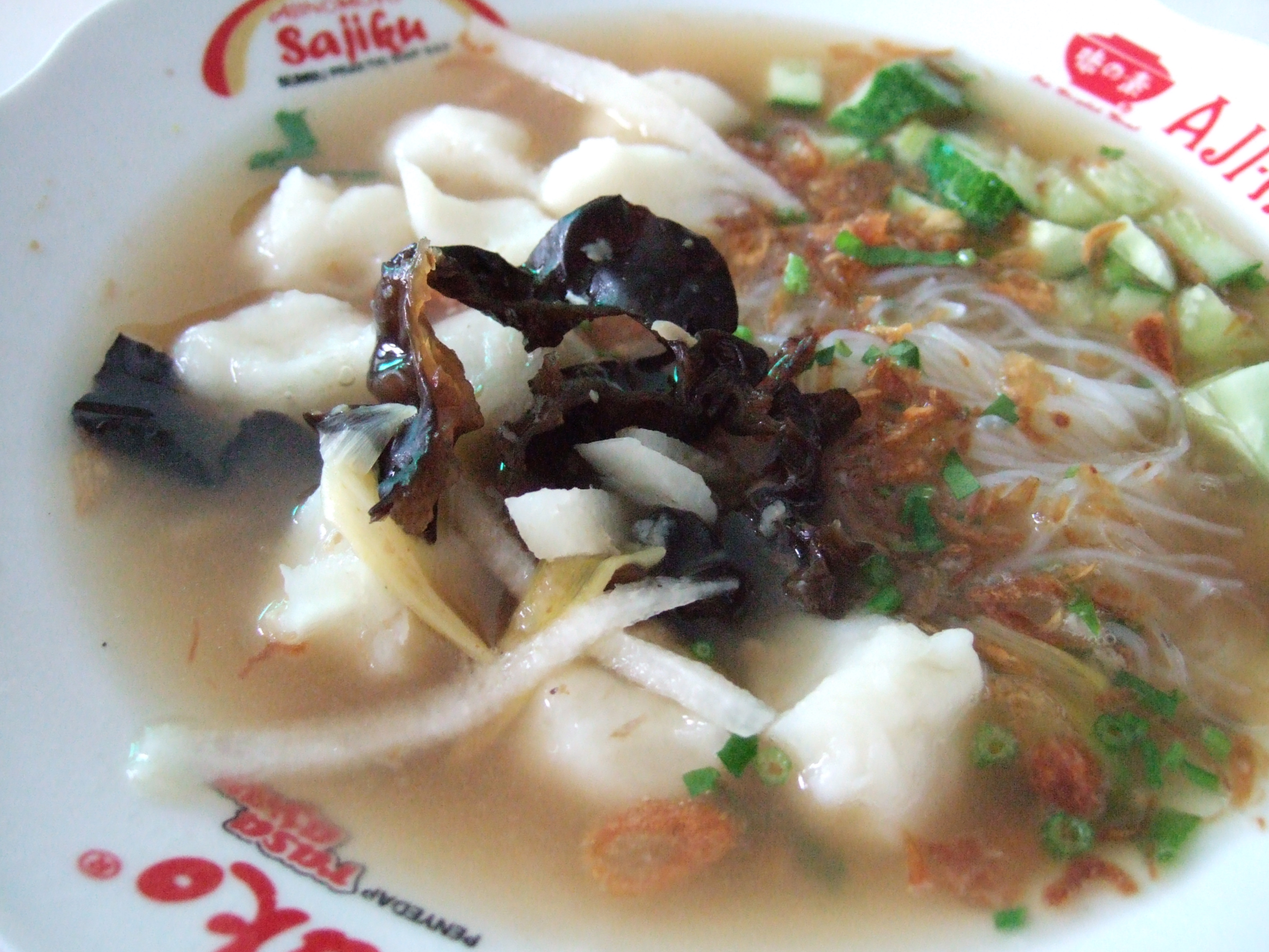 Tekwan, fish balls, julienned jicama, and jelly ear in shrimp stock. Specialty of South Sumatra.